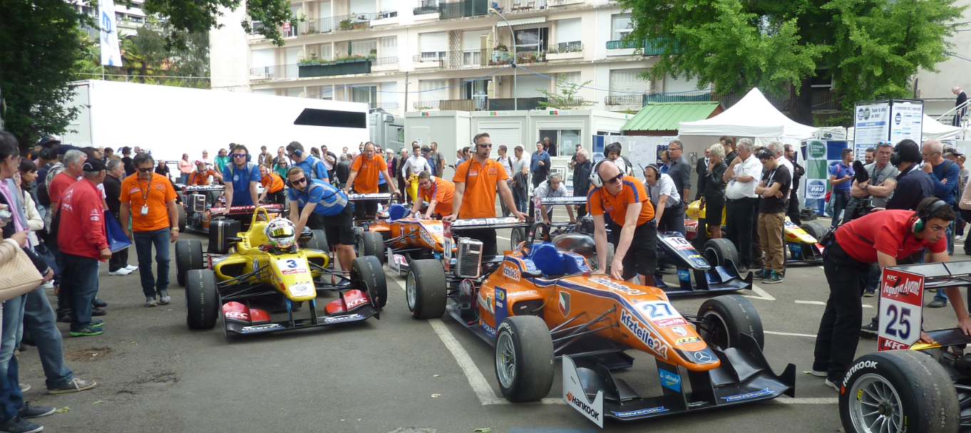 Formula Three @ 2015 Pau Grand Prix